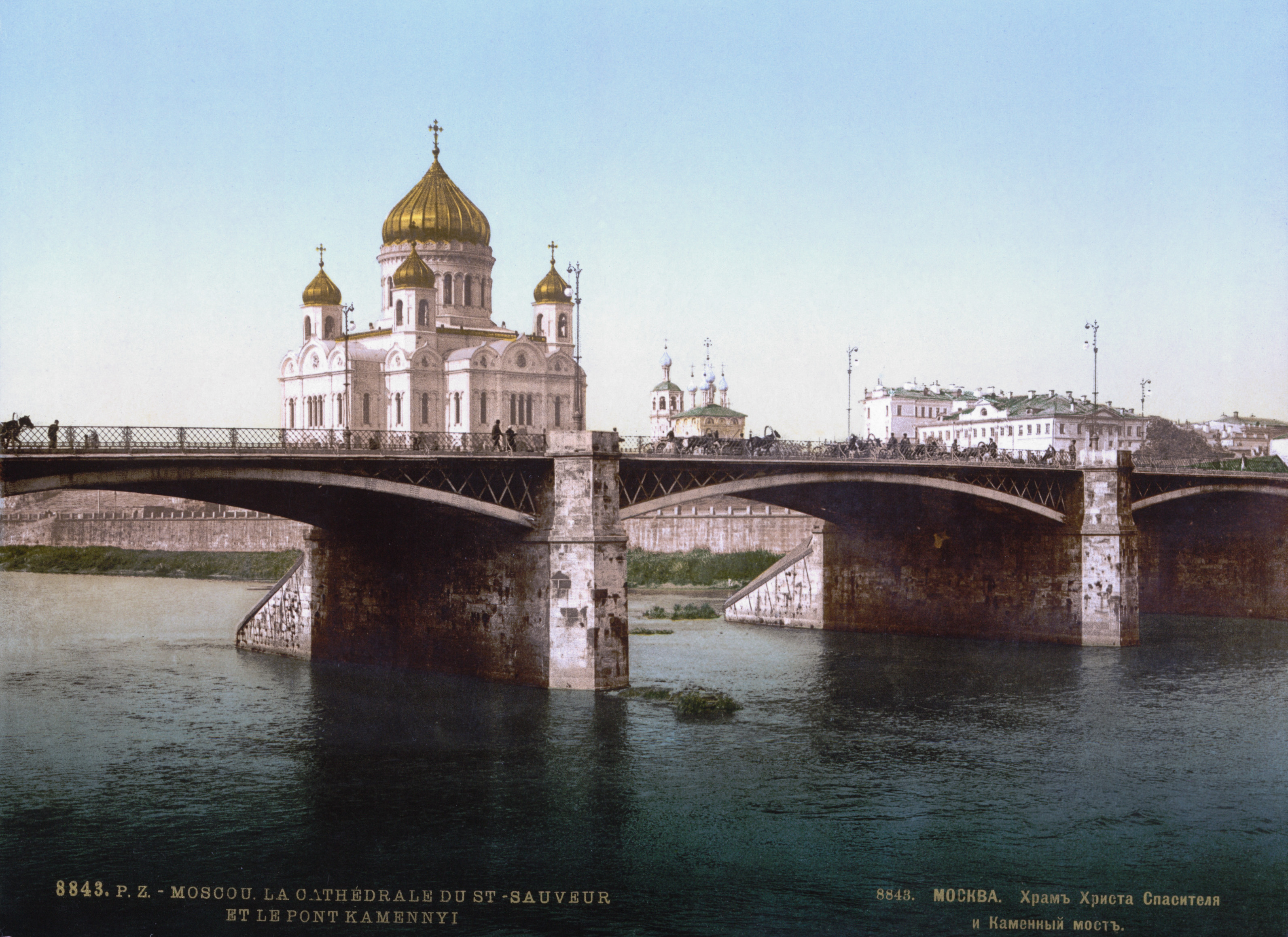 Cathedral of Christ the Saviour and Bolshoy Kamenny Bridge, Moscow, Russia in 1905. Print no. "8843"